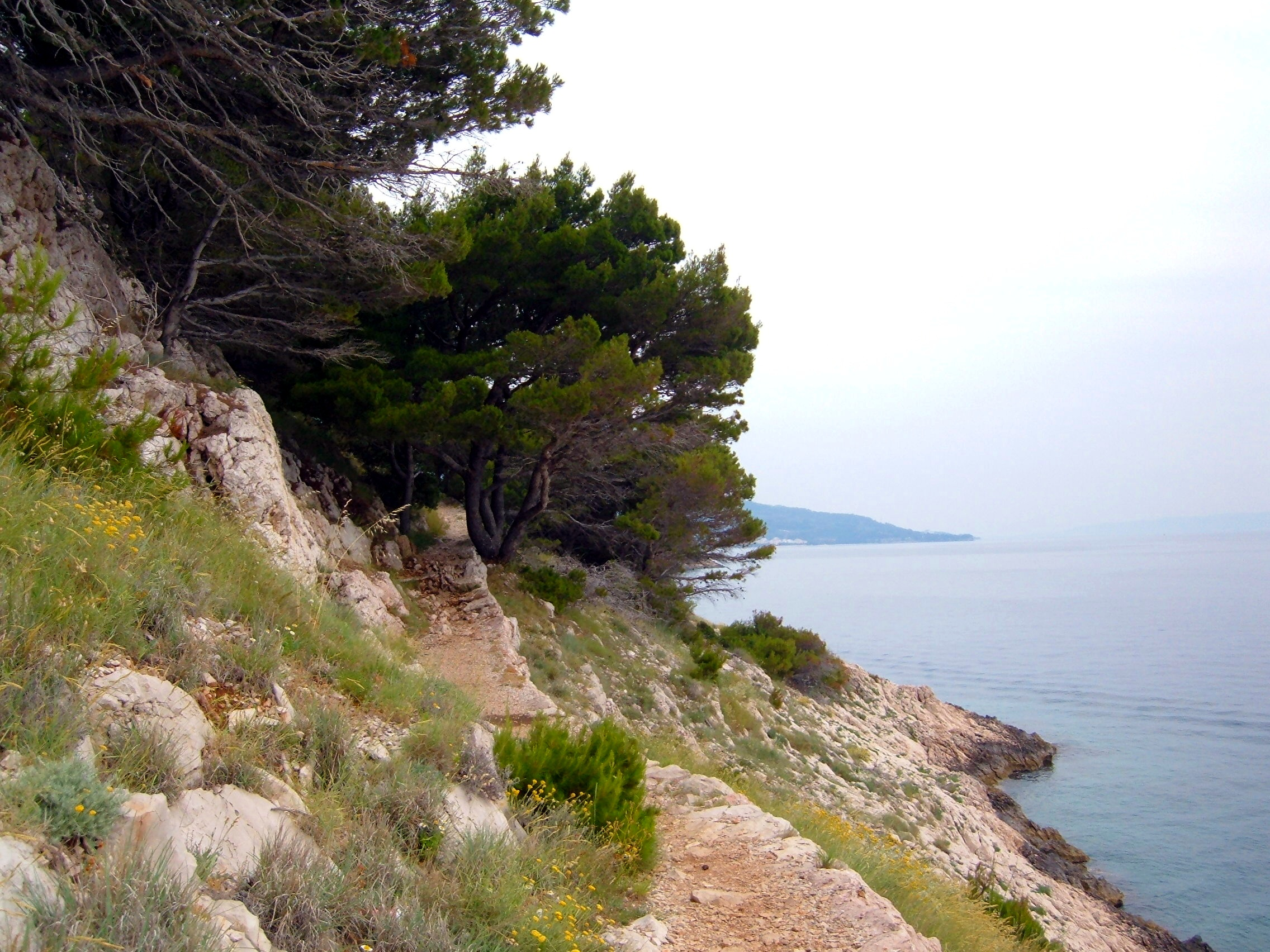 Long and winding path from Makarska to the beach Nugal.